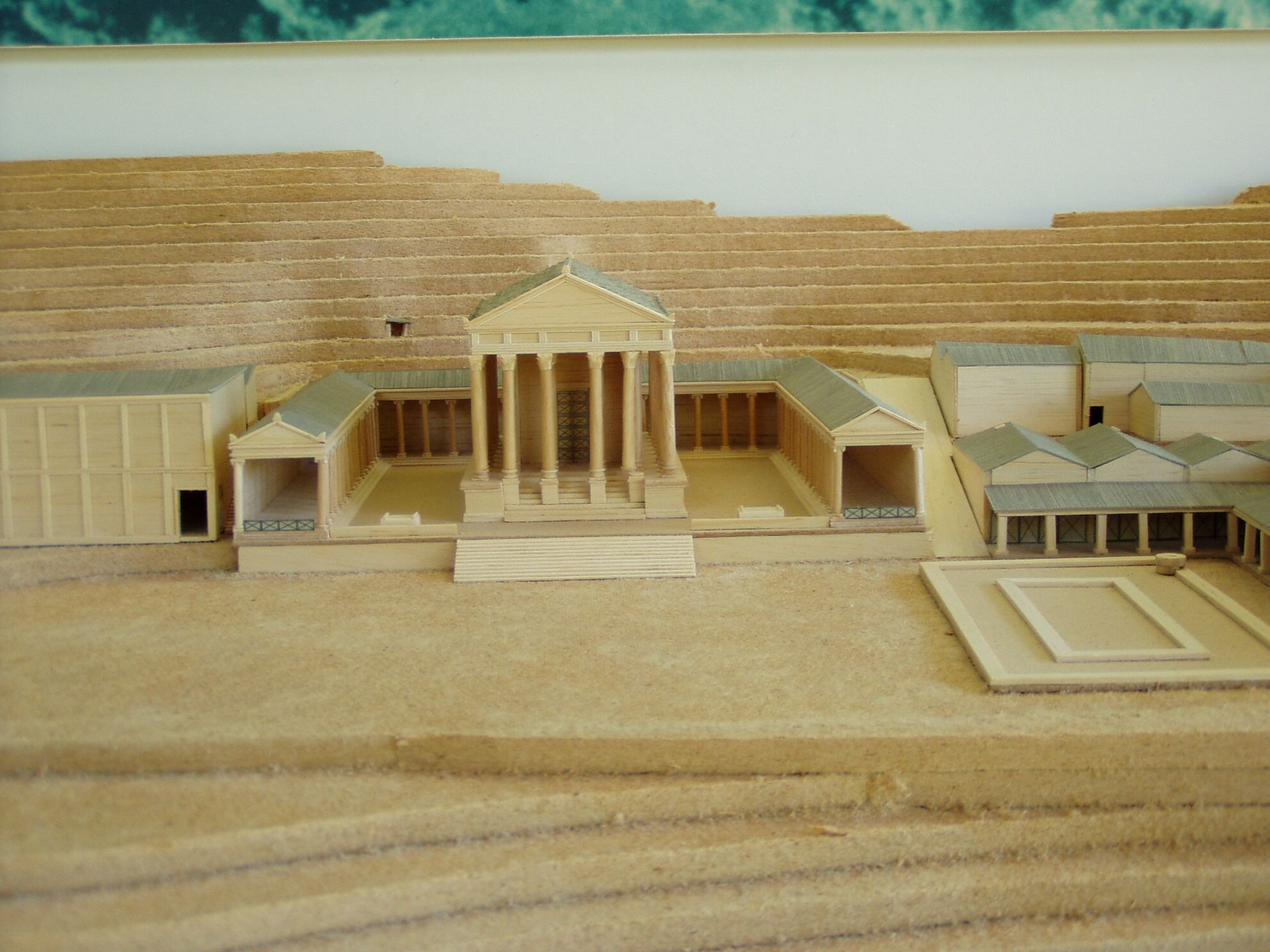 Stadt am Magdalensberg, Holzmodell des Tempels/City on the Magdalensberg, wooden miniature of temple